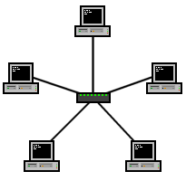 Star network topology, own work